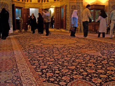 Copy of the infamous Ardabil Carpet located in the city of Ardabil, Iran.